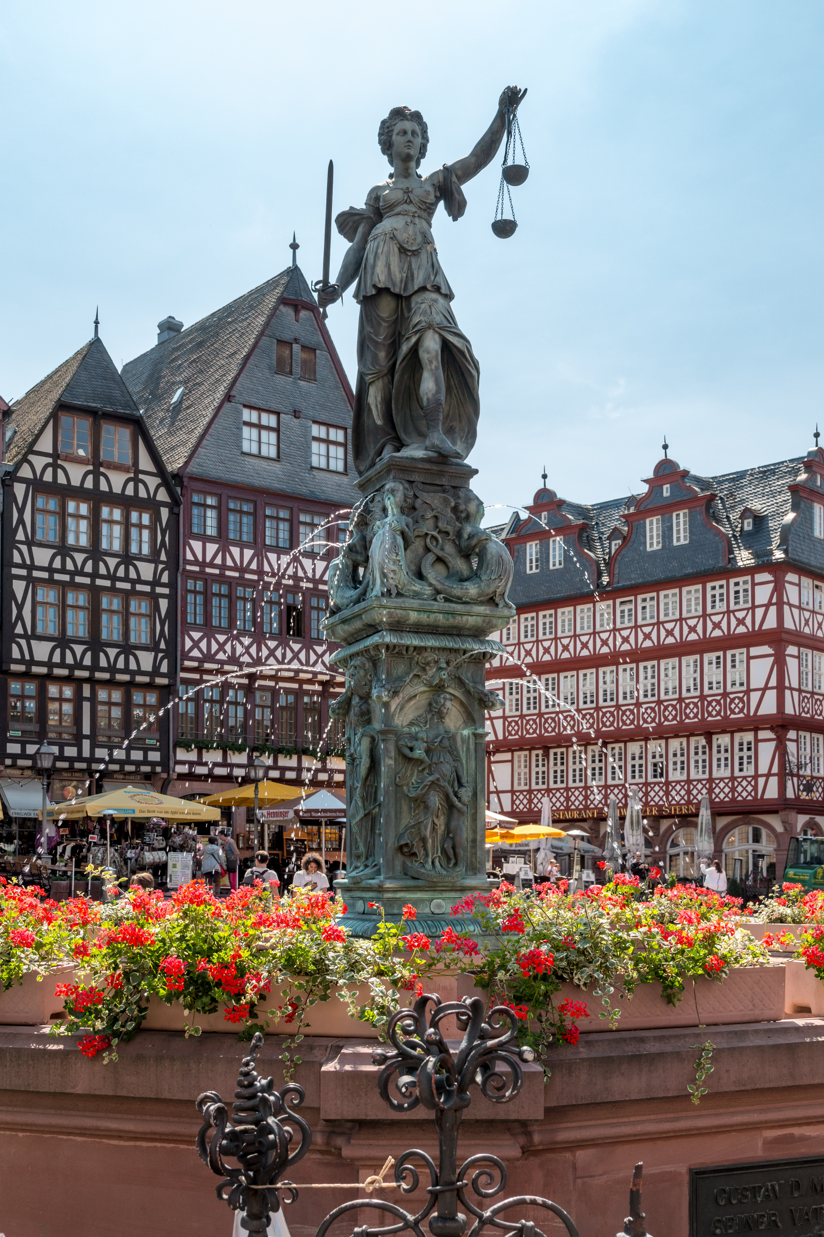 Gerechtigkeitsbrunnen, Frankfurt am Main, Hesse, Germany This is a photograph of an architectural monument.It is on the list of cultural monuments of Frankfurt am Main